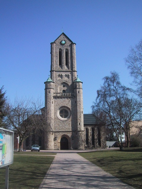 Bochum-Langendreer: Catholic Church St. Mary